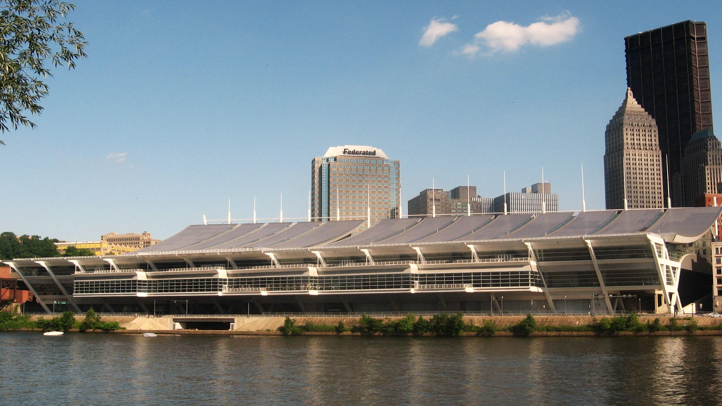 The David L. Lawrence Convention Center in Pittsburgh40°26′45″N 79°59′47″W / 40.44583°N 79.99639°W